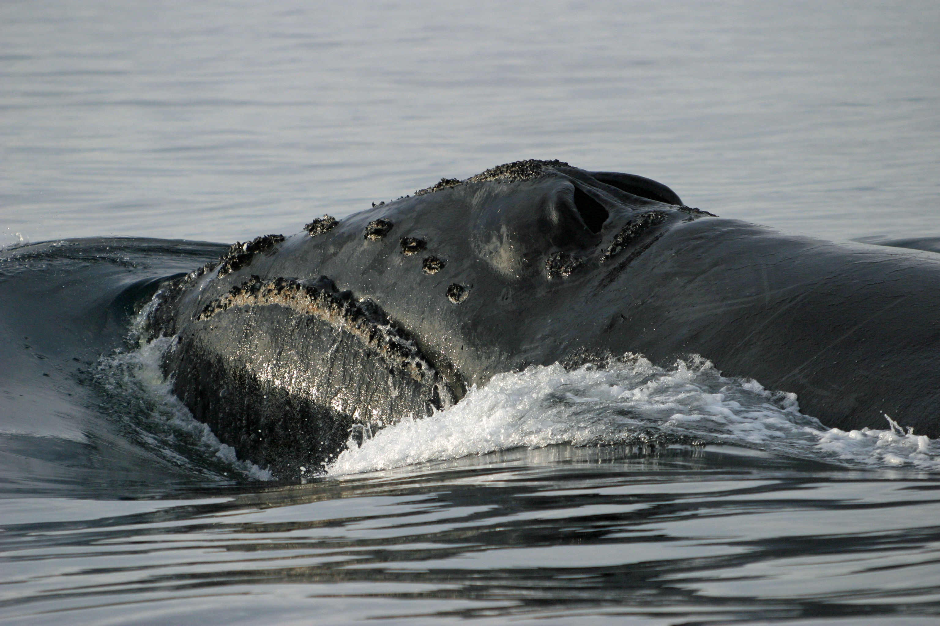 North Pacific right whale (Eubalaena japonica) The original NOAA image has been modified by adjusting tone and brightness.